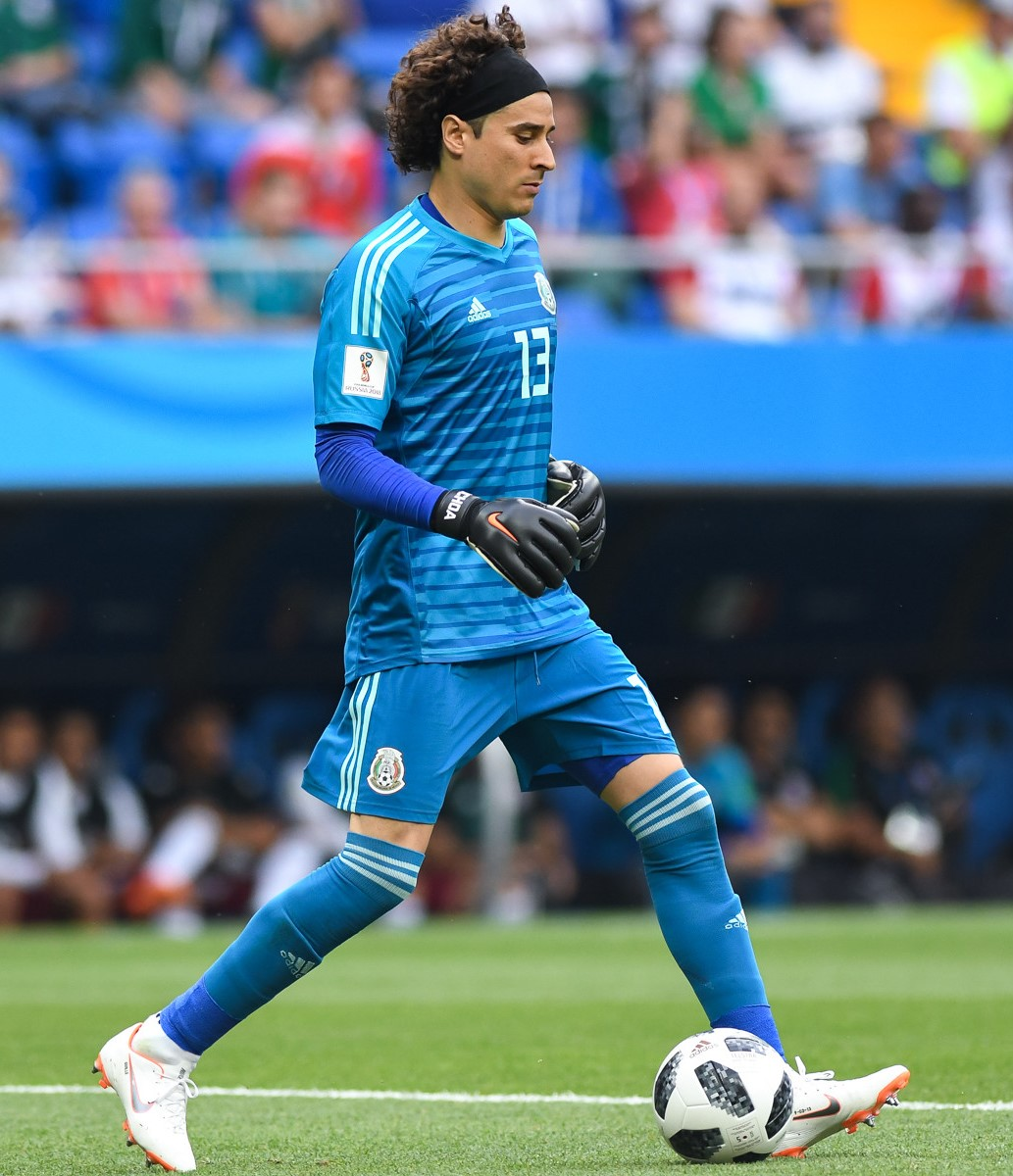 Francisco Guillermo Ochoa